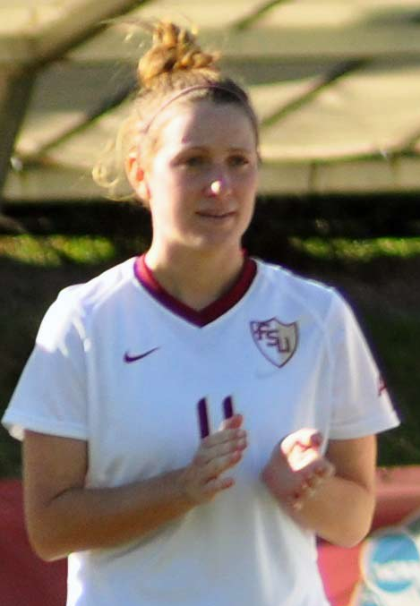 Pregame FSU Soccer vs BC